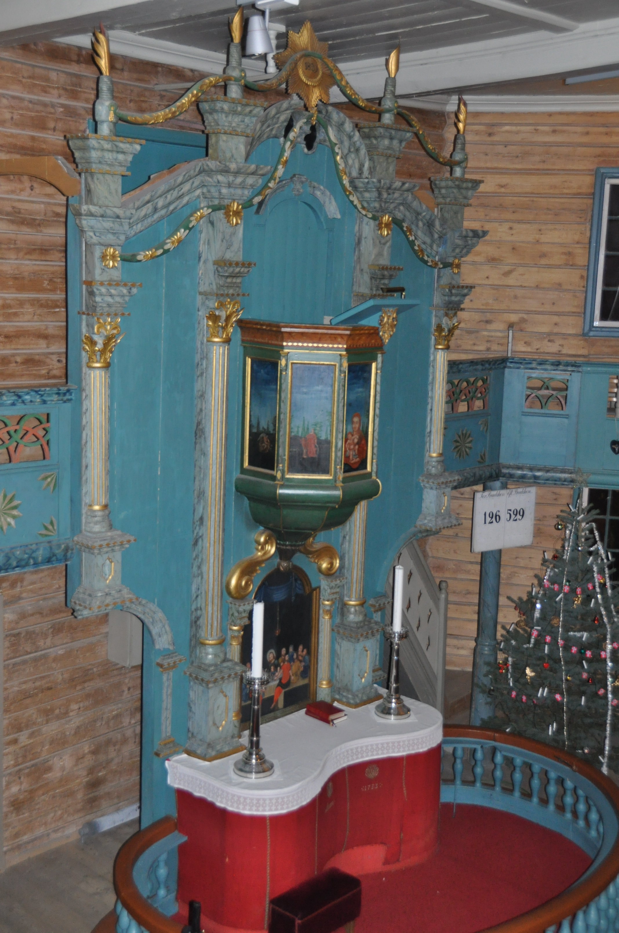 Pulpit and altar, Grytten Church, Rauma district